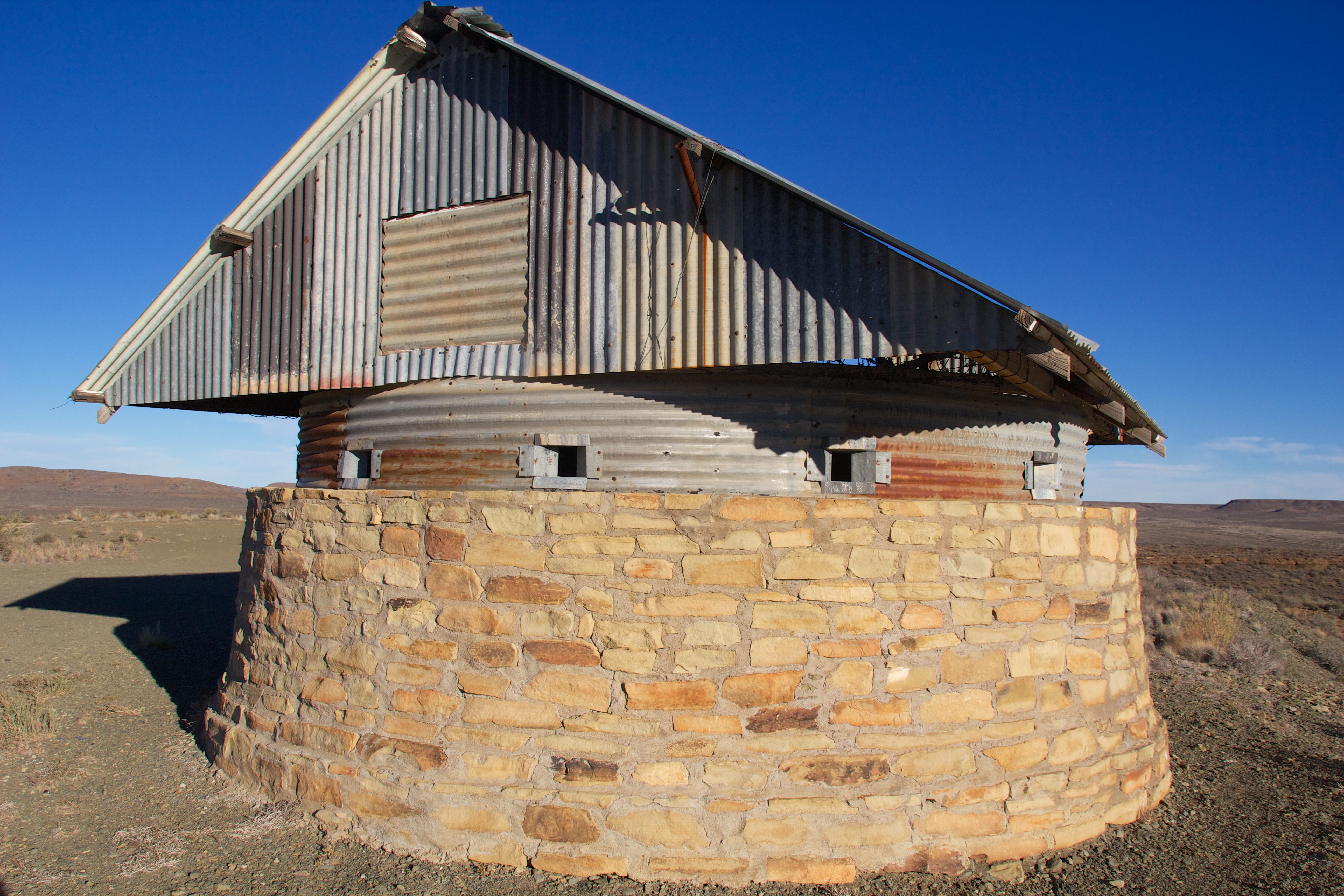 Reconstructed fort from the Second Boer War, Carnarvon.